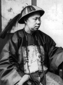 Shen Baozhen (Sīng Bō̤-tĭng), an important Qing official in the Chinese Self-strengthening movement of 19th century.